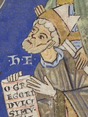 Bishop of Olomouc Henry Zdík from Horologium olomucense, 12th century